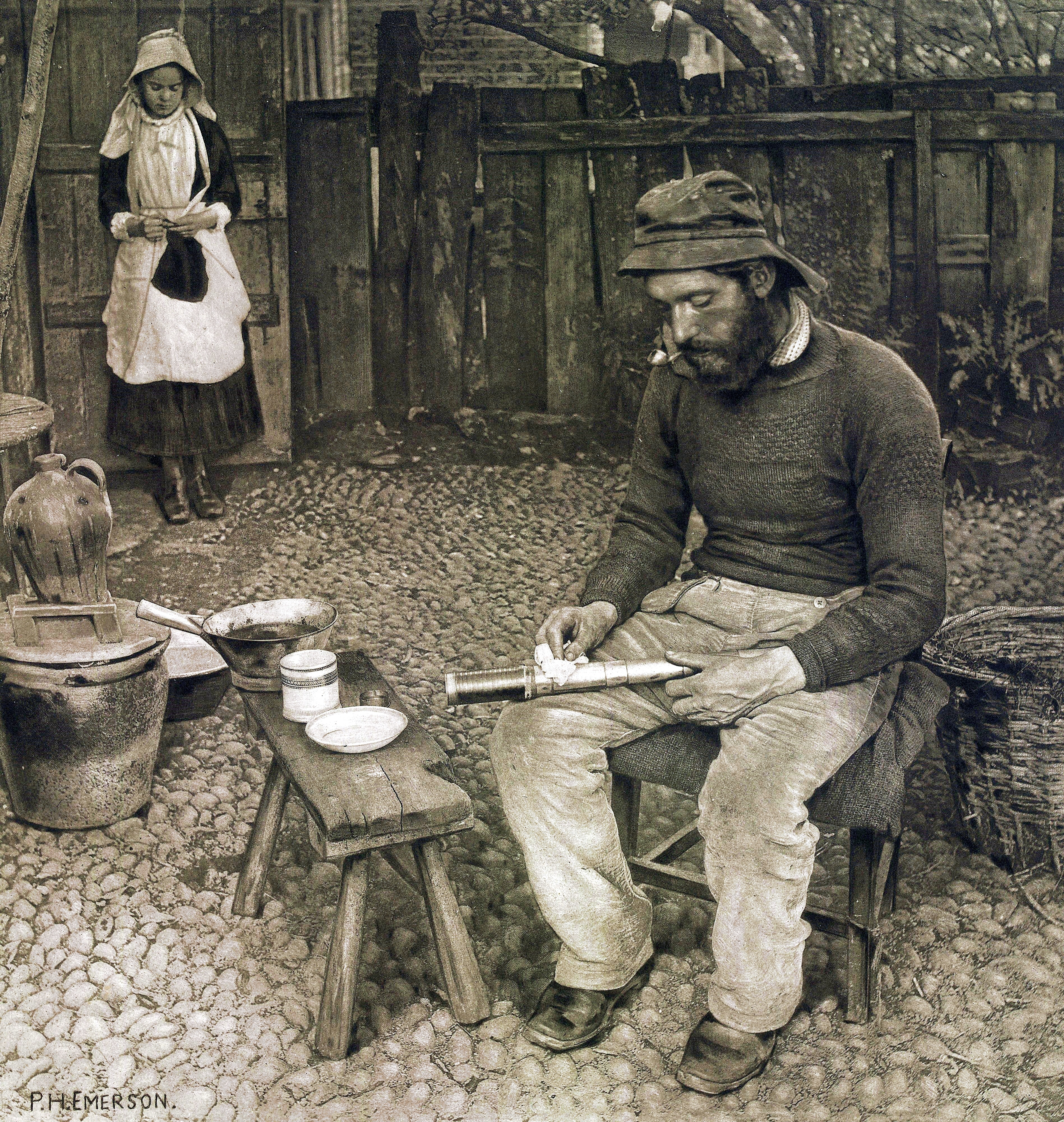 In the 1887 book ‘Pictures From Life In Field And Fen,’ photographer Peter Henry Emerson observes and records scenes of country life in East Anglia, England. 'A Fisherman At Home,’ depicts a figure polishing his telescope and chewing on the stem of a clay pipe in a fisherman's cobbled yard.